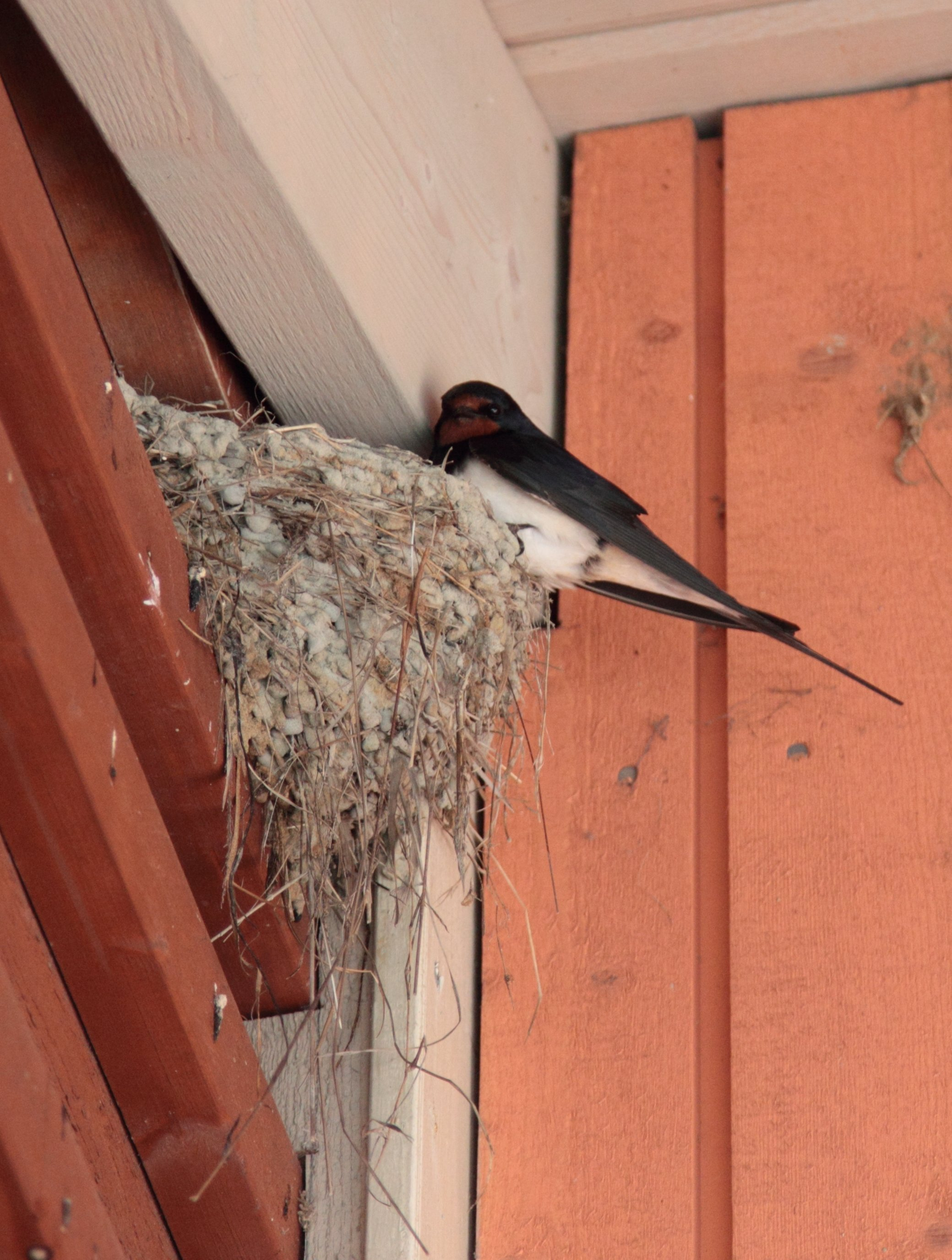 Barn swallow (Hirundo rustica) nest in Kuivaniemi, Finland.